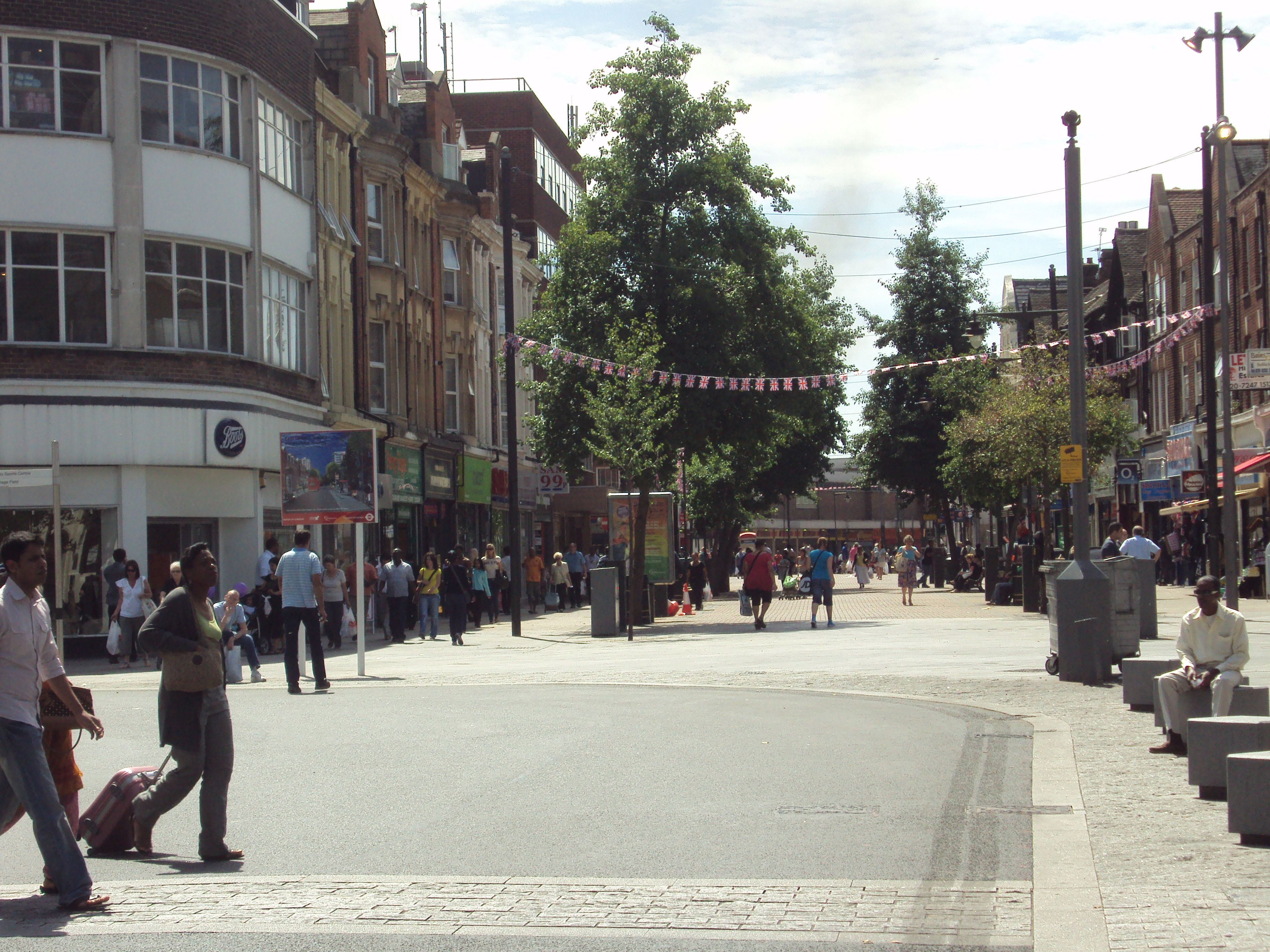 Pedestrianised shopping area at East Street, Barking, East London.